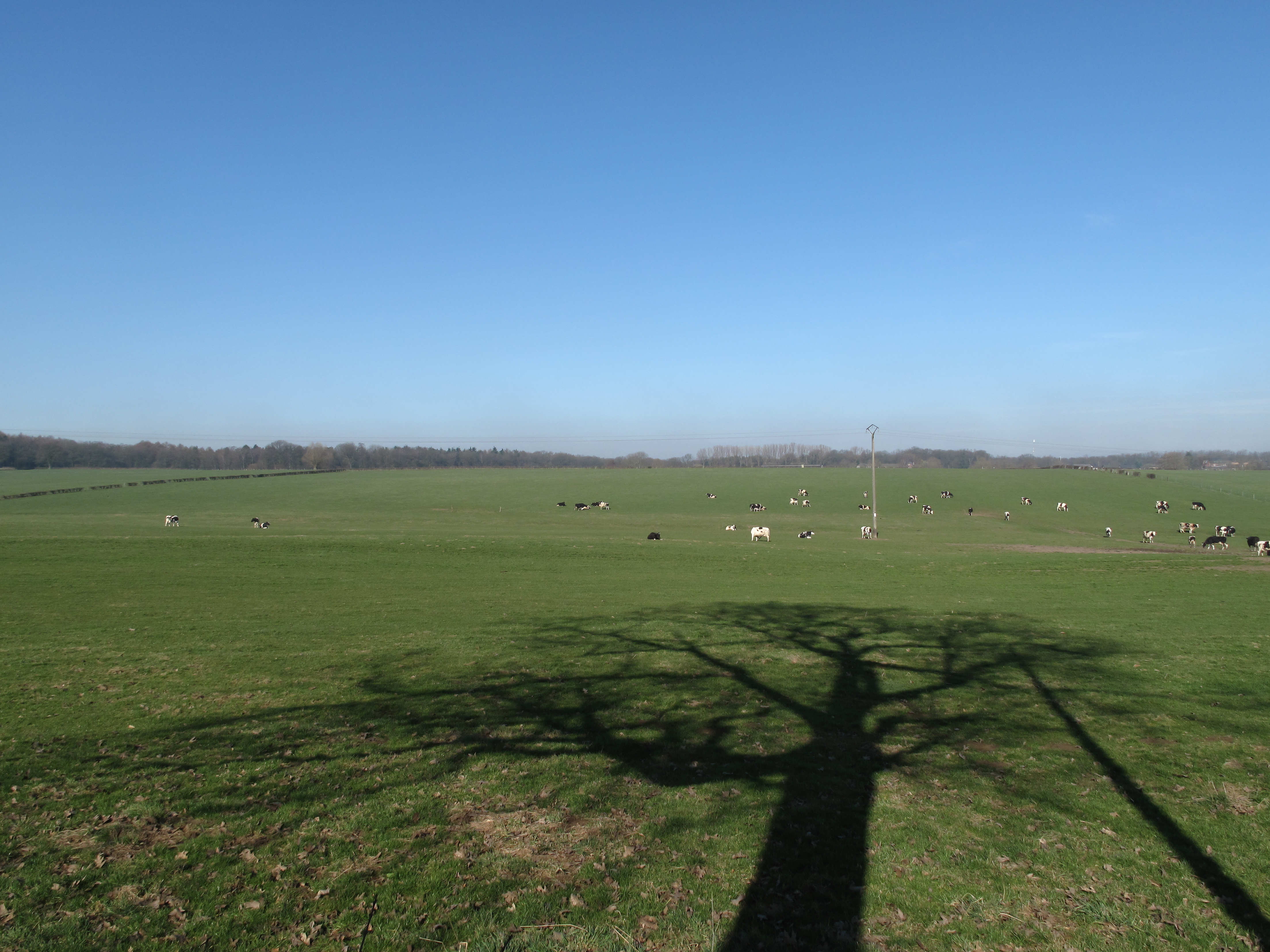 between Eynatten and Kettenis, panorama